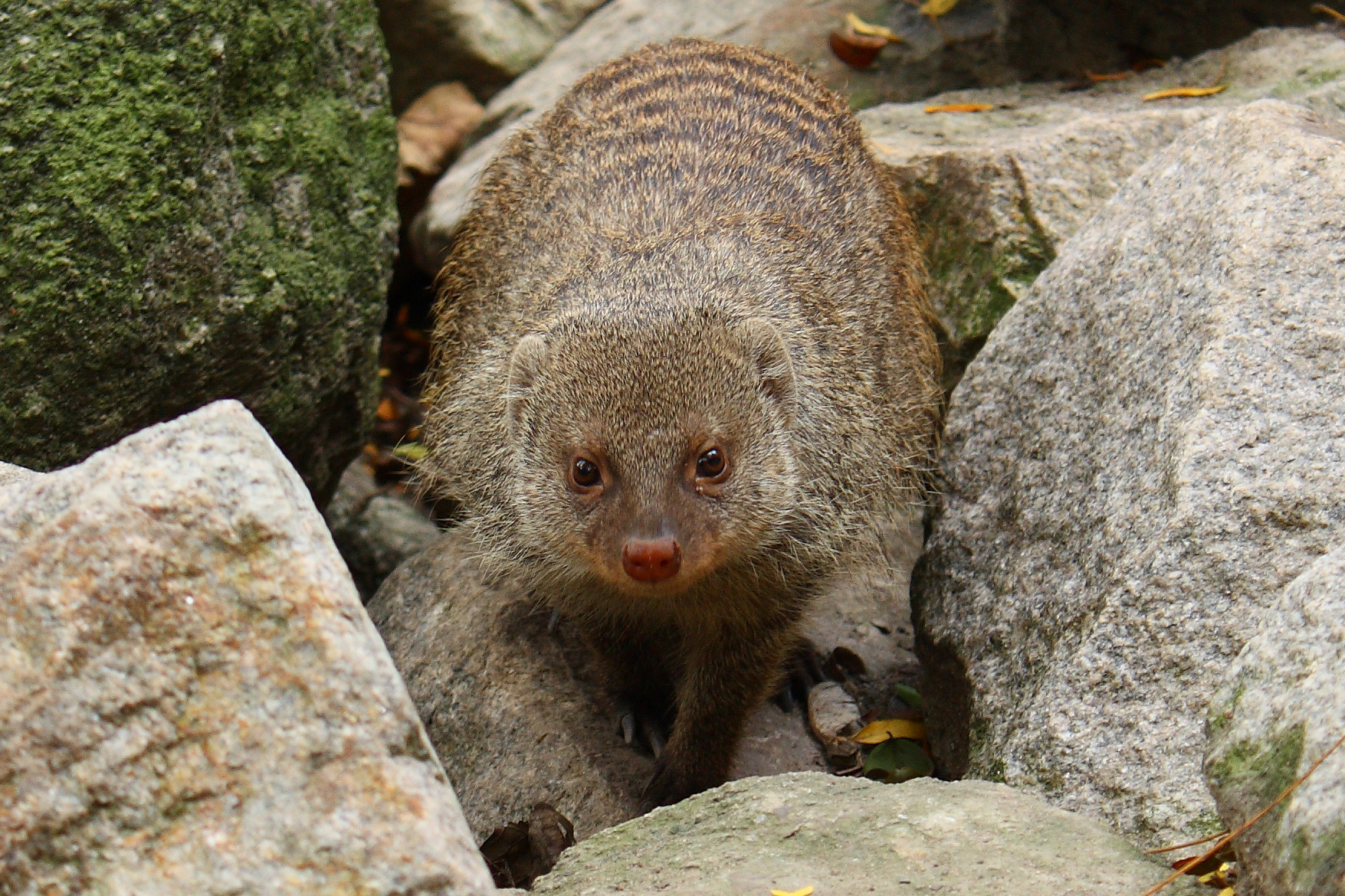 A banded mongoose in Karlsruhe Zoo, Karlsruhe, Germany